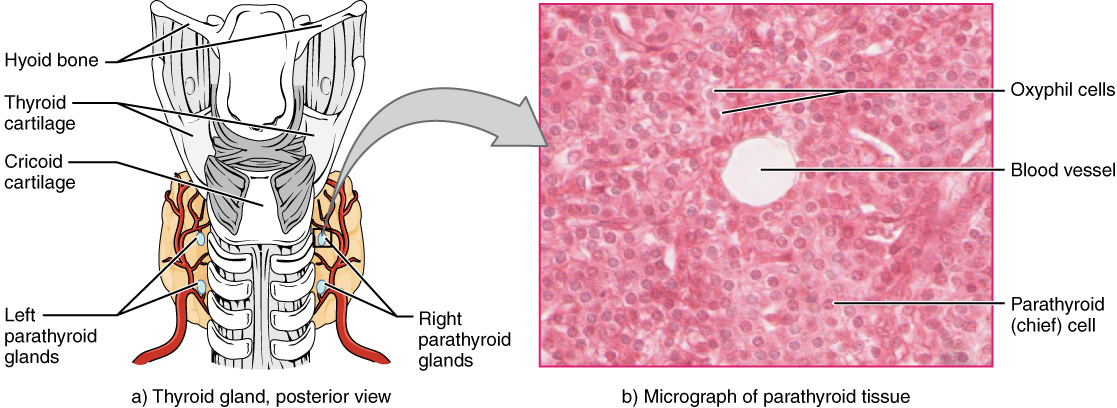 Illustration from Anatomy & Physiology, Connexions Web site. Jun 19, 2013.